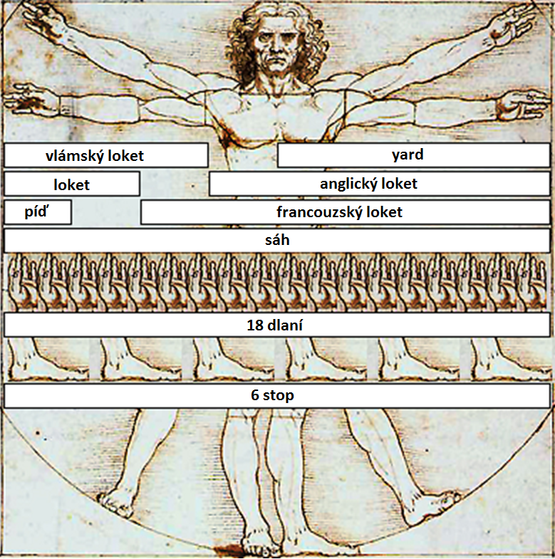 This derivation of the Vitruvian Man by Leonardo Da Vinci depicts nine historical units of measurement: the Yard, the Span, the Cubit, the Flemish Ell, the English Ell, the French Ell, the Fathom, the Hand , and the Foot. Da Vinci drew the Vitruvian man to scale, so the units depicted here are displayed with their proper historical ratios.